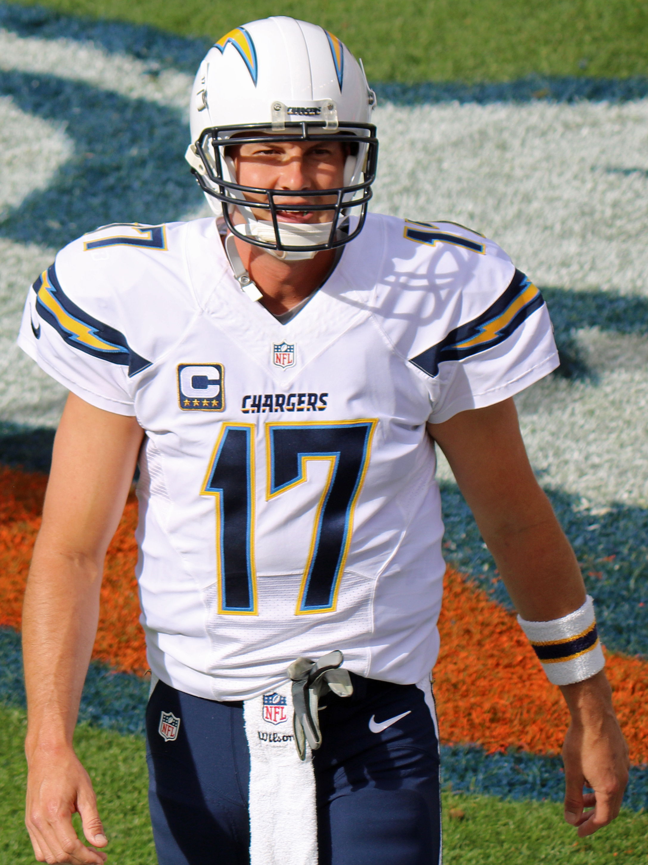 Philip Rivers, a player on the National Football League.